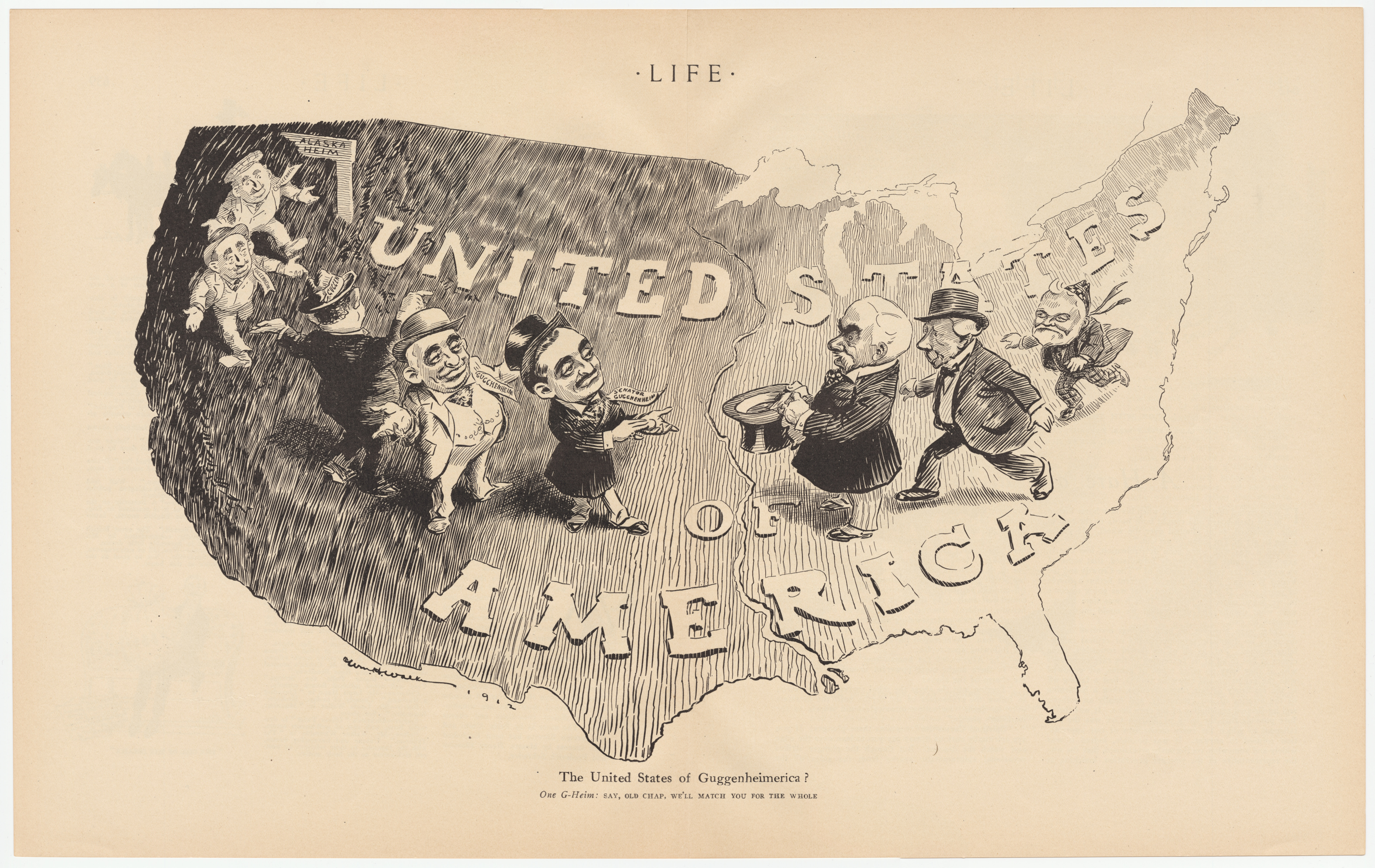 This satirical political cartoon had its origin in the Ballinger-Pinchot affair of 1909, which involved a noisy public scandal over the allegedly illegal distribution of 33 federal coal land claims in Alaska to the Guggenheim mining interests.